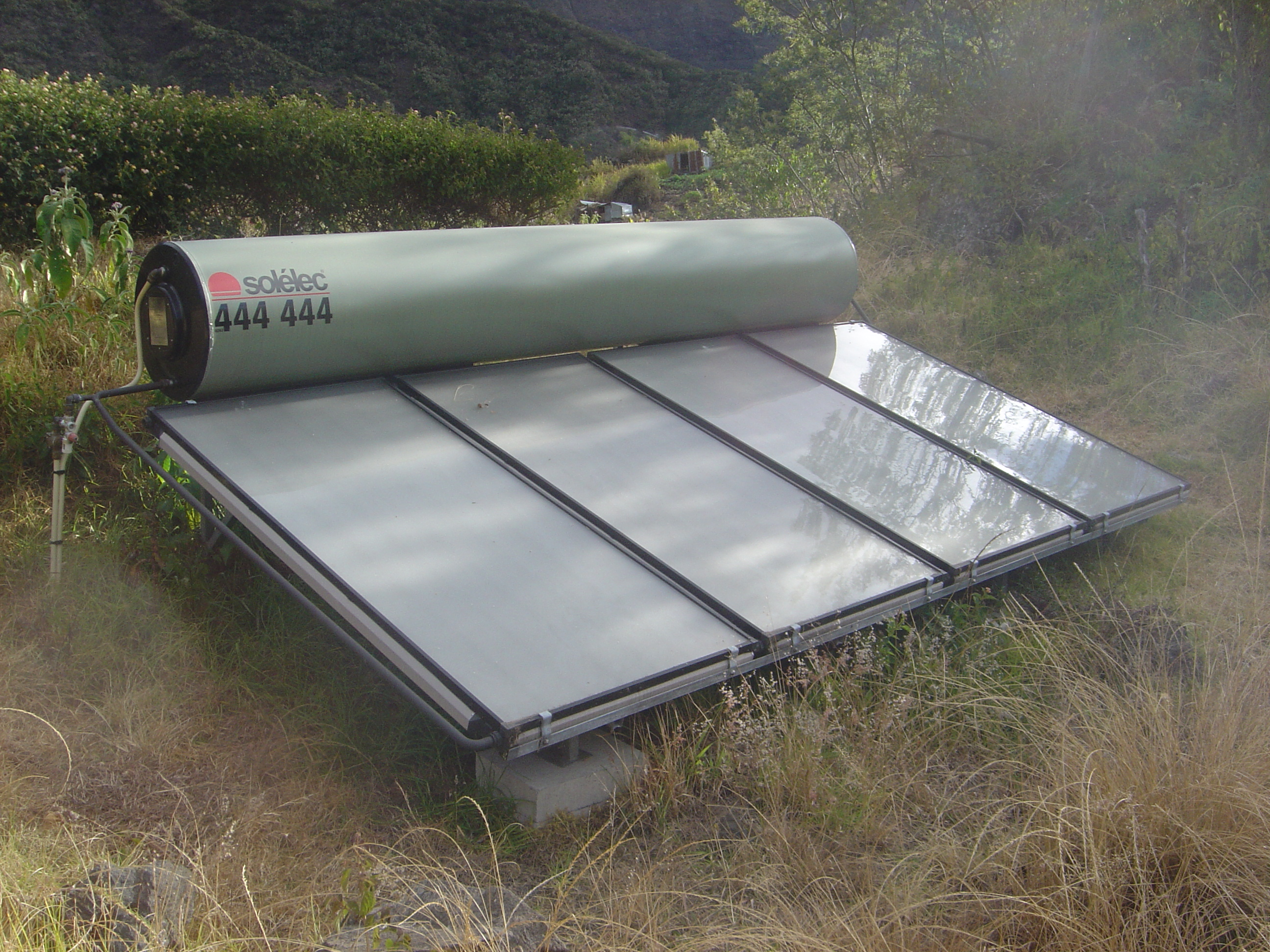 Solar water heater used in the Cirque de Mafate, Réunion, Panneaux solaires